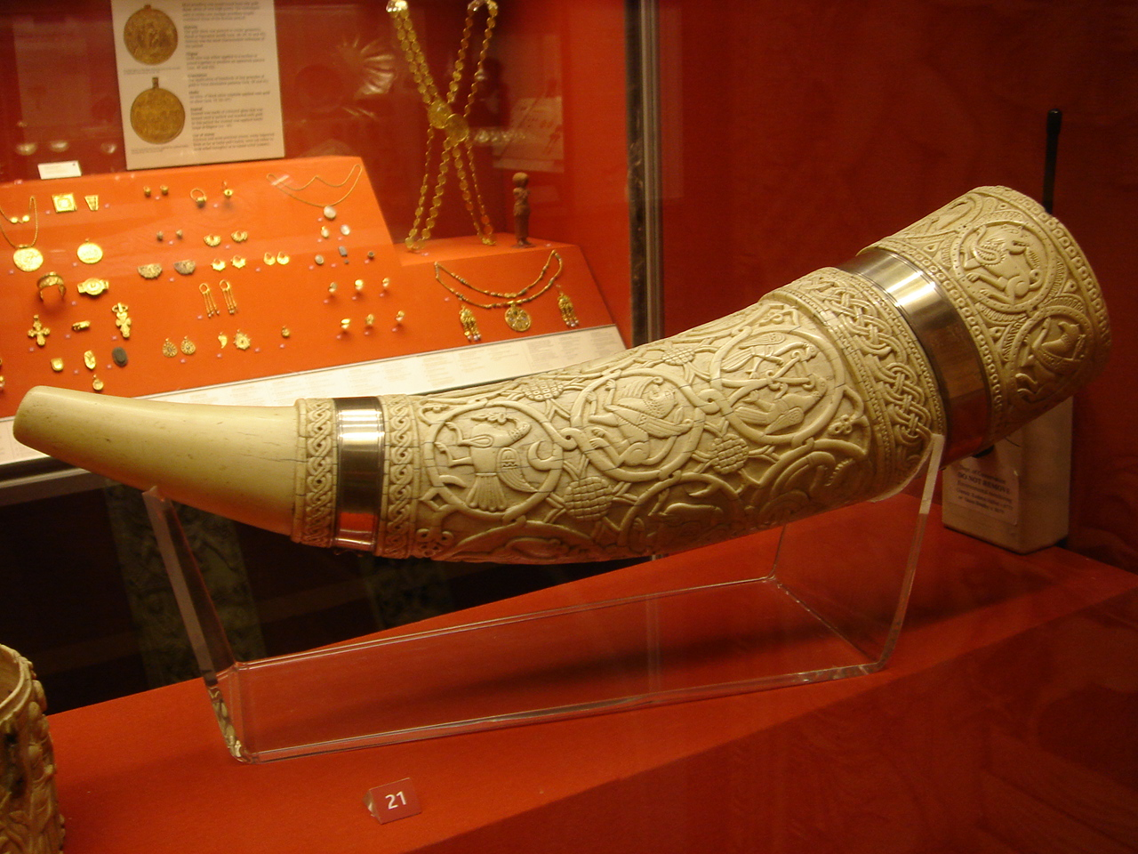 The decoration of this oliphant probably derives from motifs on Byzantine silks.